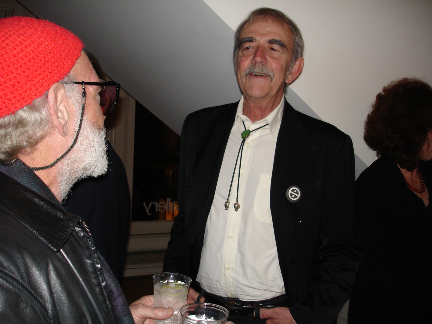 San Francisco Bay Area artist William T. Wiley out in public at the Berggruen Gallery, San Francisco 2006